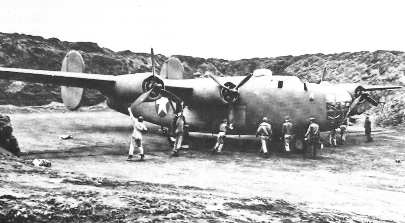 36th Bombardment Squadron B-24 Liberator Adak Alaska This picture is also identified as a plane of the 404th Bombardment Squadron.